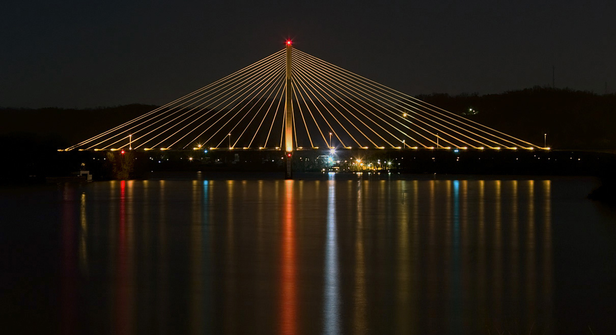 The East End Bridge between Proctorville, Ohio and Huntington, WV at night.